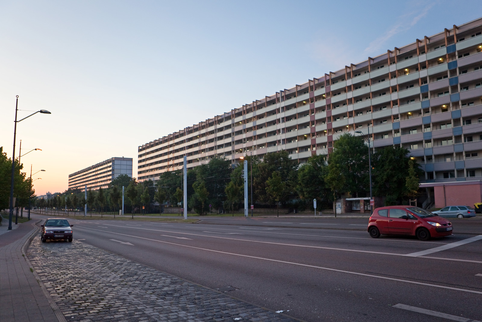 Magistrale in the center of the Plattenbau settlement of Halle-Neustadt. – The picture was first published in b/w in the book "Die Südharzreise" ("The South Harz Journey"), by SuKuLTuR, Berlin, in 2010. The entire book was released under CC by-nc-sa 3.0, all pictures have been re-licensed under CC by-sa, see user page for details. – Picture taken with a Canon EOS 5D Mark II.